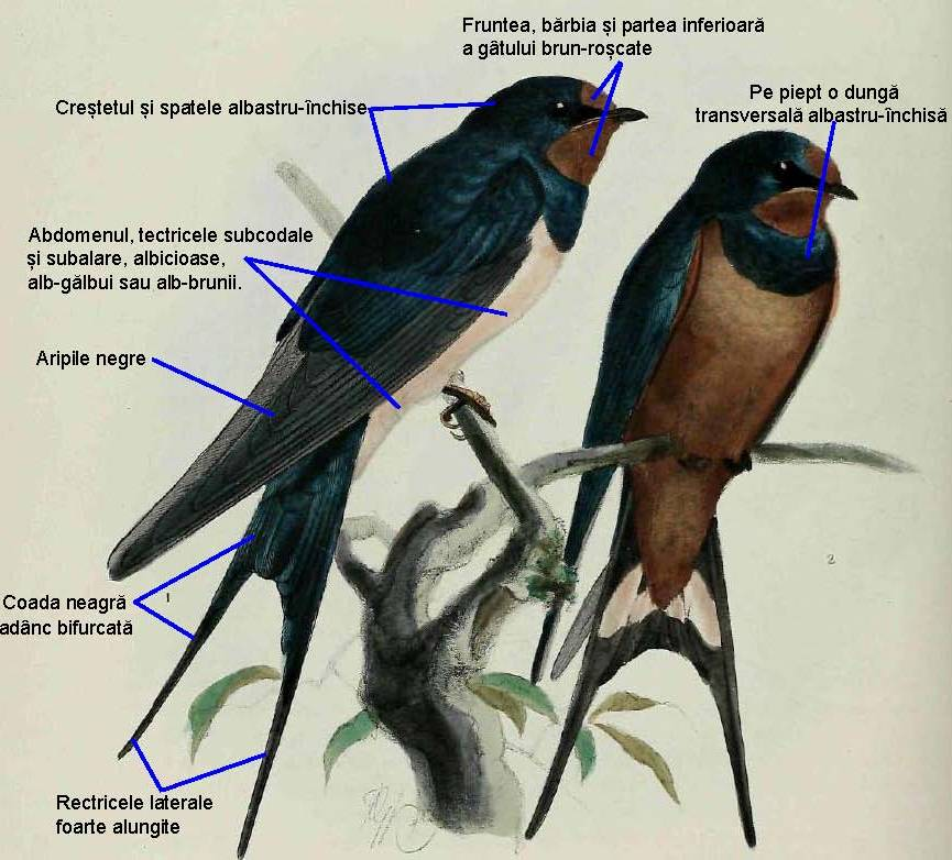 Hirundo rustica Dresser